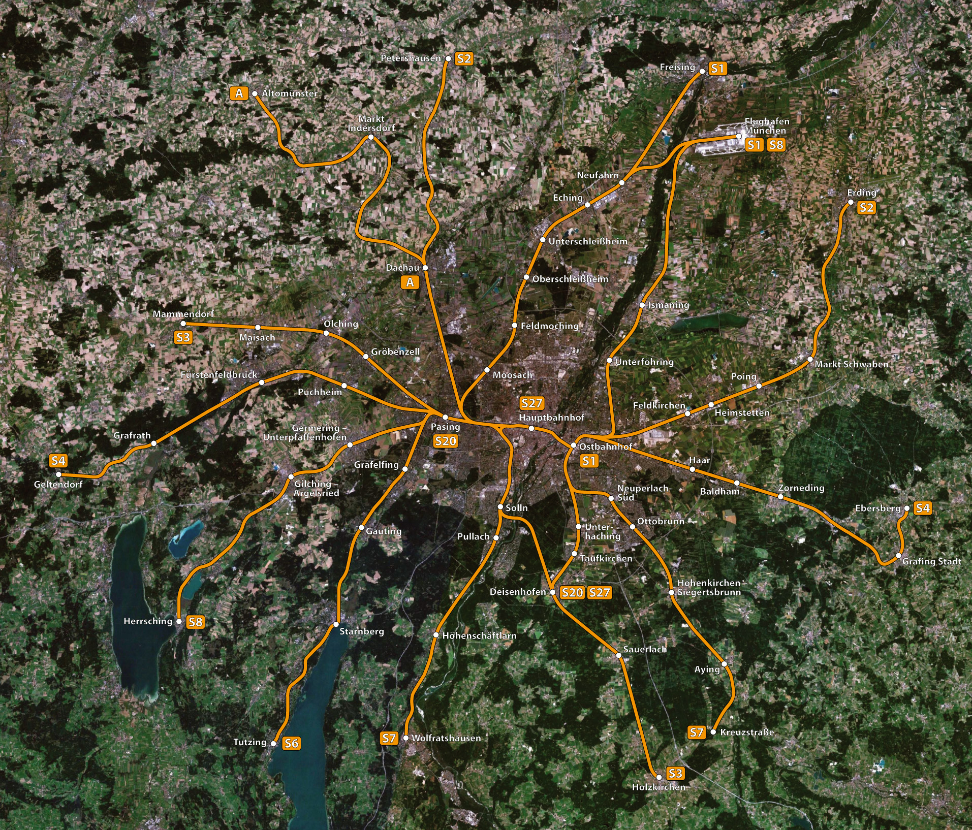 Munich S-Bahn routes